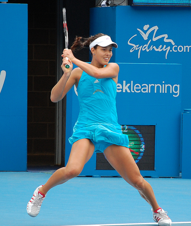 Ana Ivanovic at the Medibank International, on 8 January 2008.